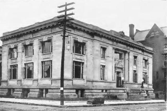 The public library built in Davenport, Iowa in 1904 with $75,000.00 in funds donated by Andrew Carnegie. It was torn own in 1966 to make way for the present building.